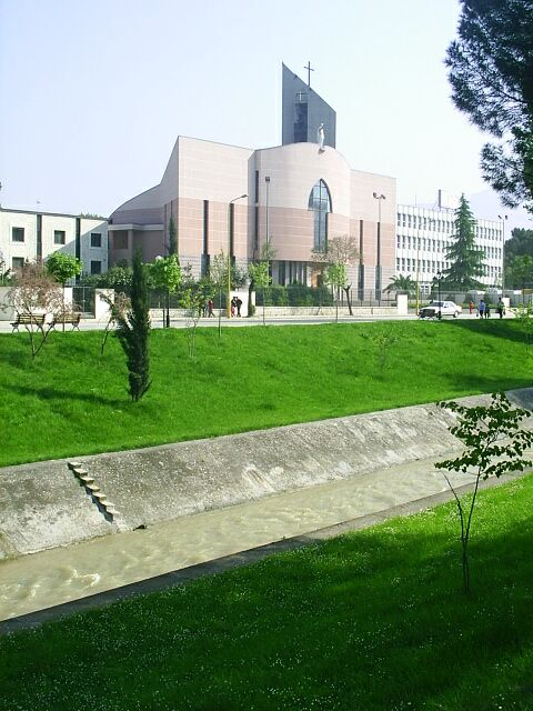 Tirana, capital of Albania